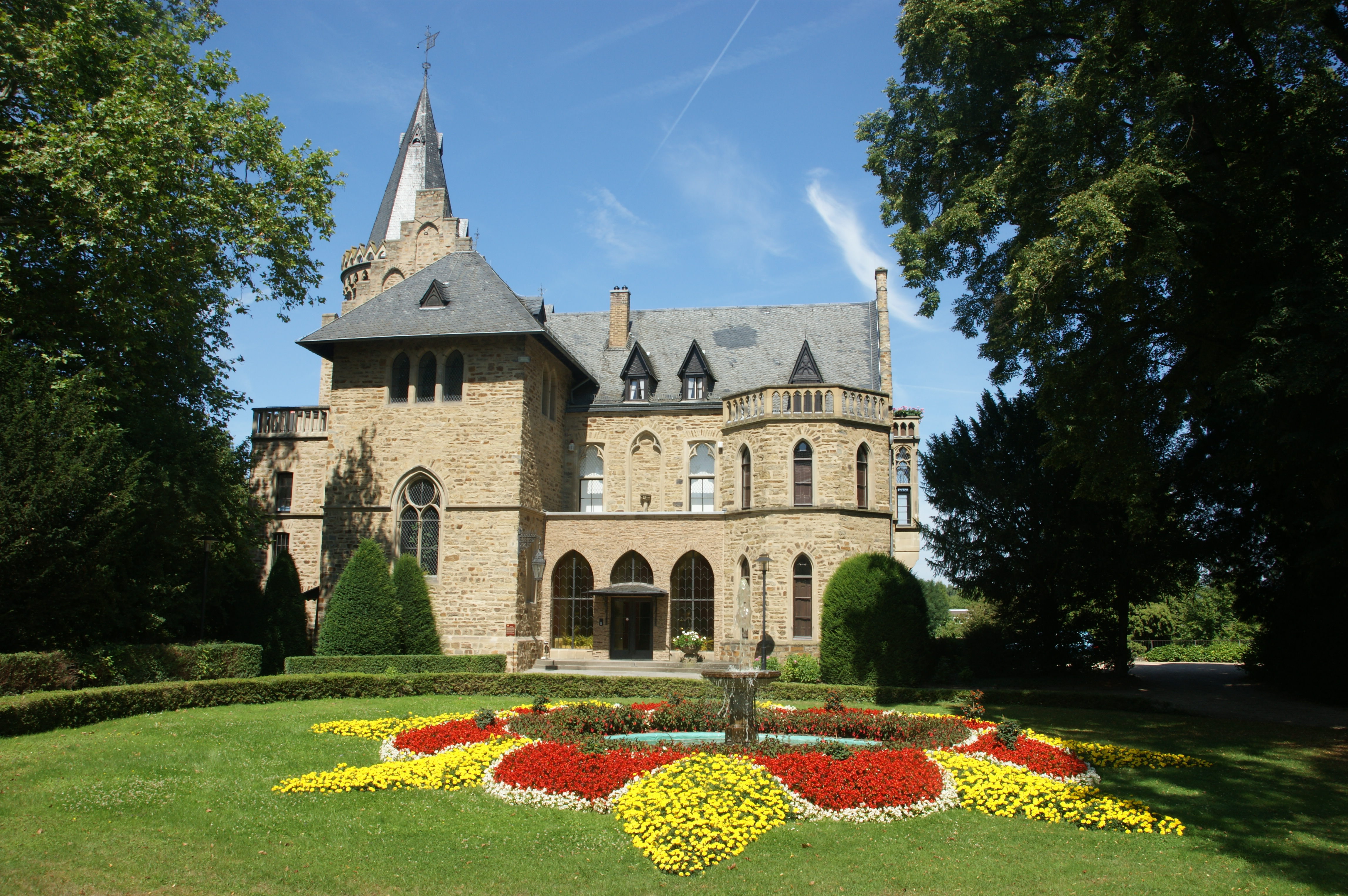 Castle in Sinzig in Rhineland-Palatinate, Germany